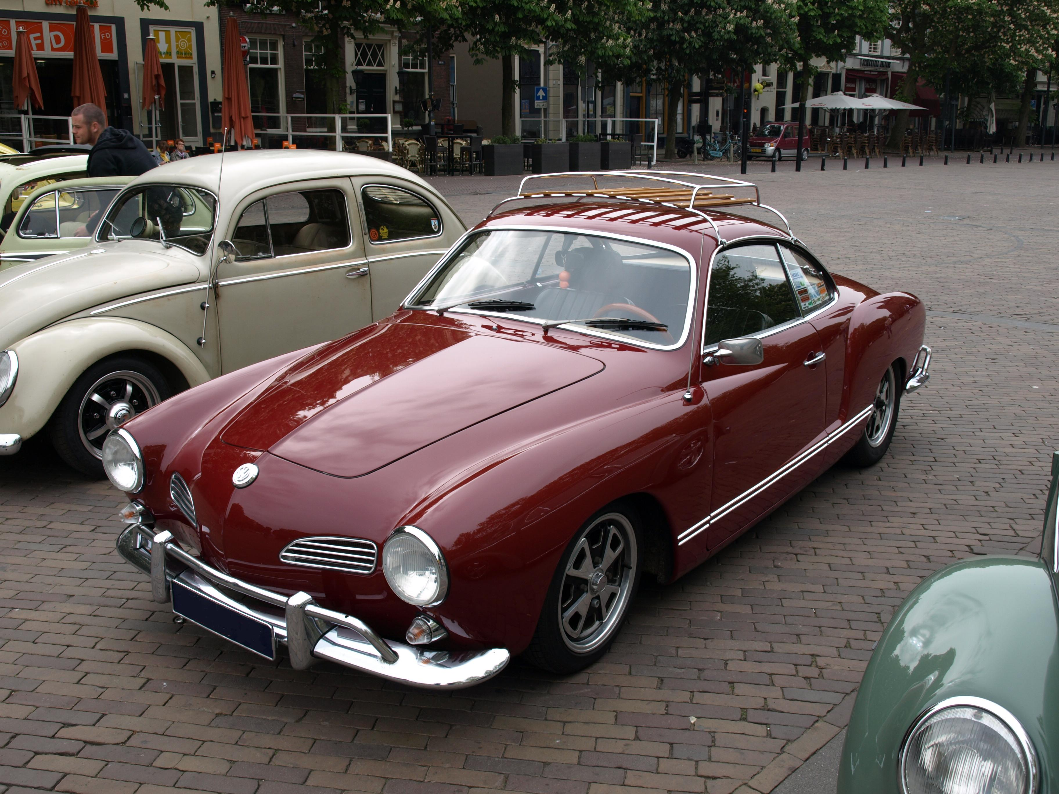 Aircooled Chillout Day 2009 - Deventer 1969 - Volkswagen Karmann Ghia.